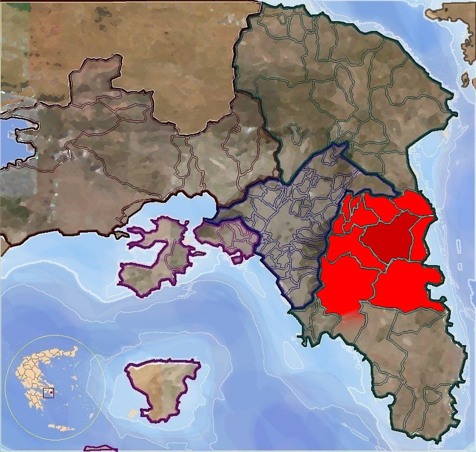 map of mesogea